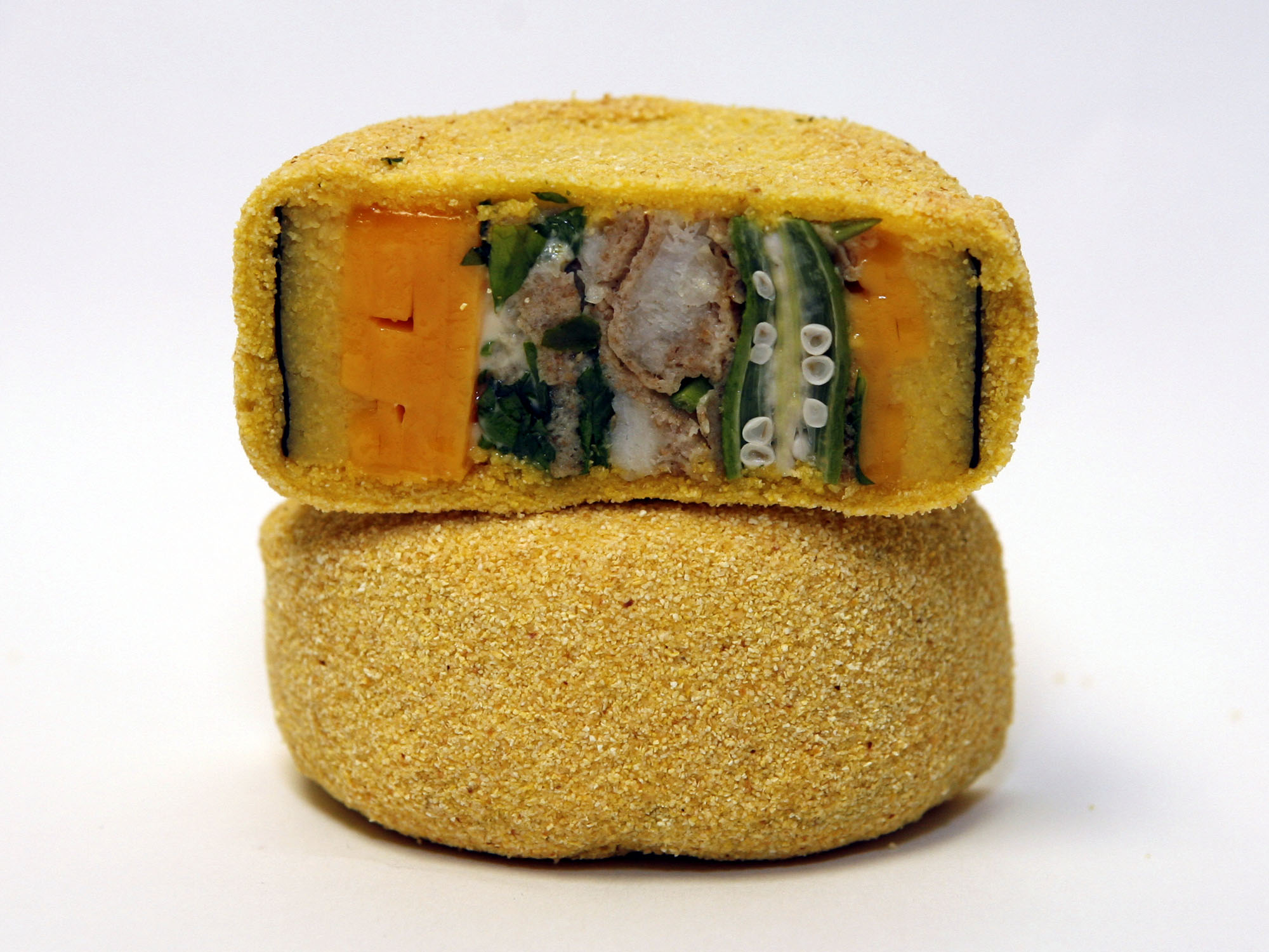 Miya's Sushi: "The Best Sushi South of the Mason Dixon Line," an Americana sushi roll created by Chef Bun Lai inspired by Southern cuisine and its Native American, African and European roots.